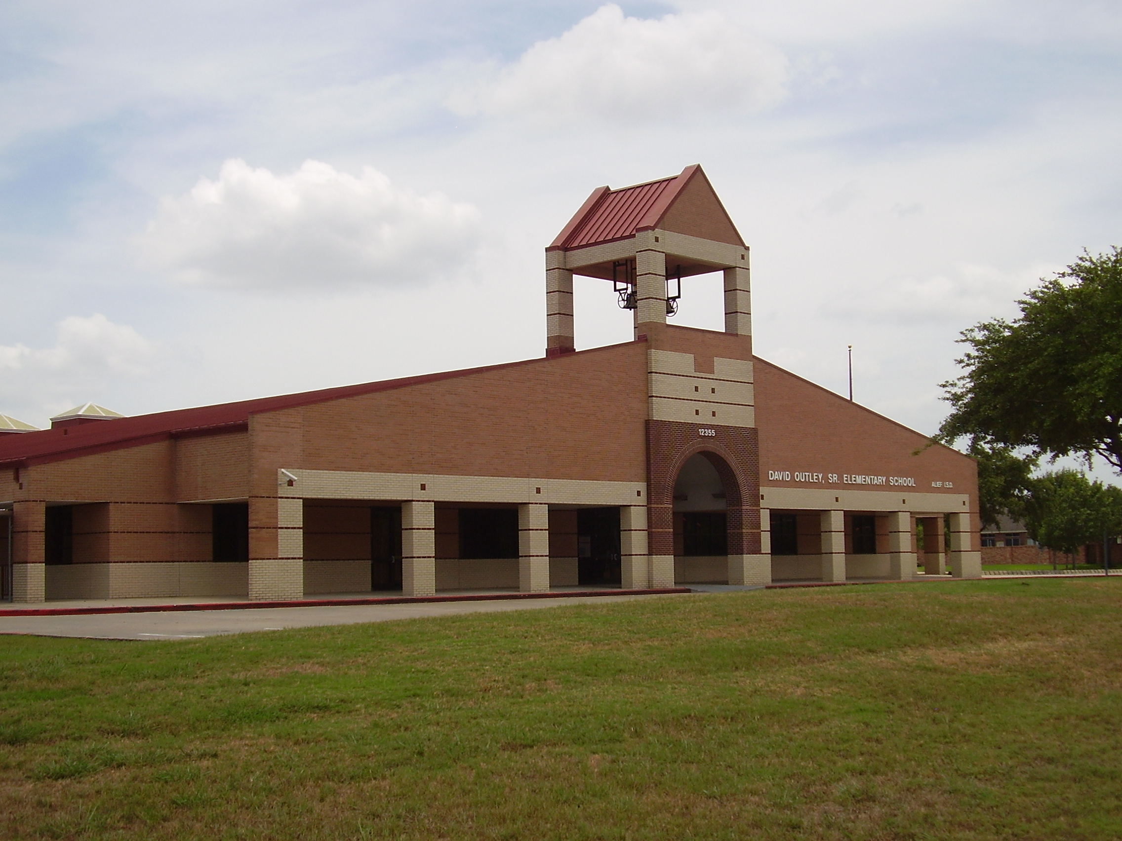 David Outley, Sr. Elementary School